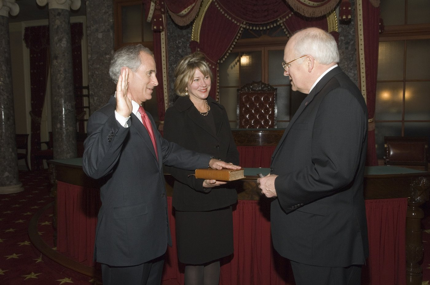 Bob Corker sworn in as a United States Senator from Tennessee by Vice President and President of the Senate Dick Cheney.